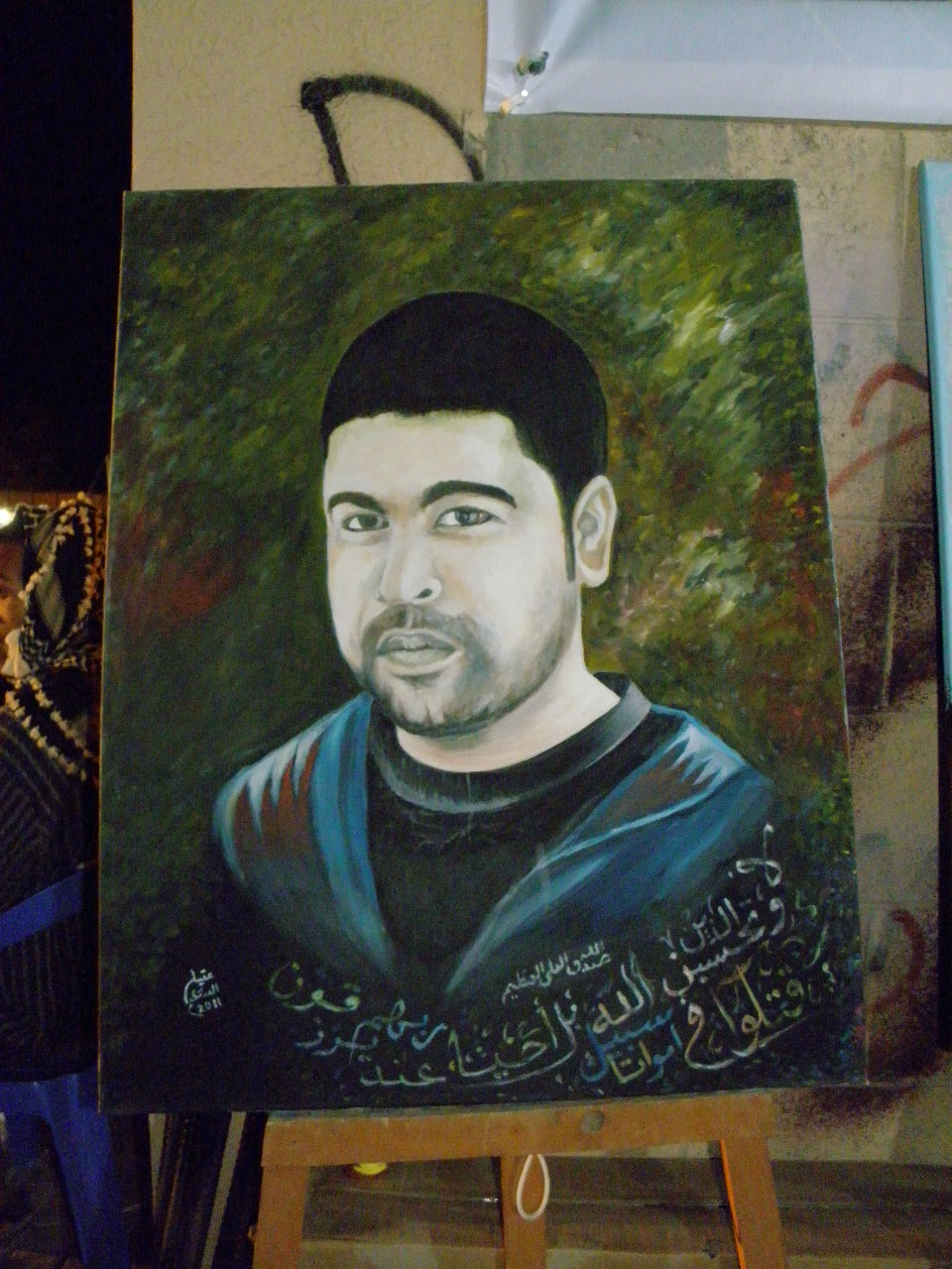 A painting for Fadhel al-Matrook, killed by riot police on 15 February 2011, the second day of the Bahraini uprising.